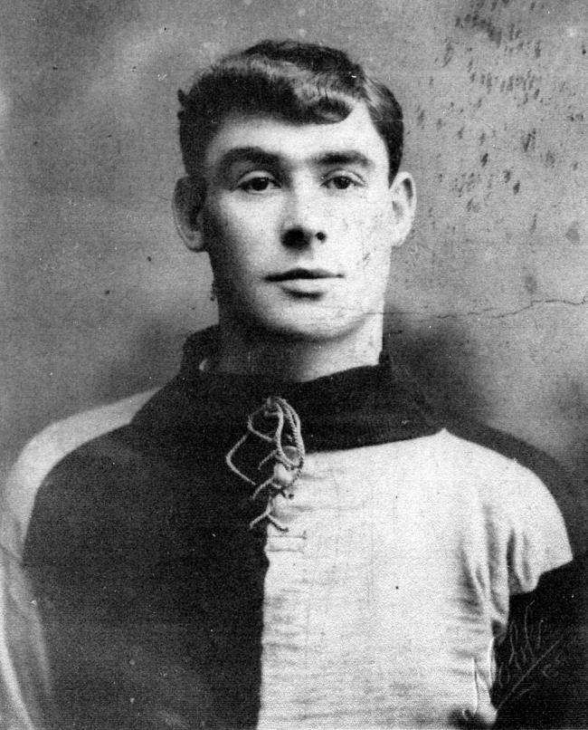 Family Photo